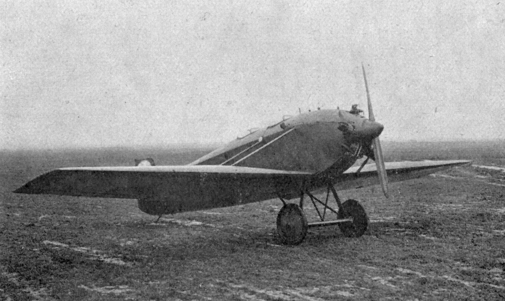 Avia BH-9 photo from L'Aéronautique February,1928